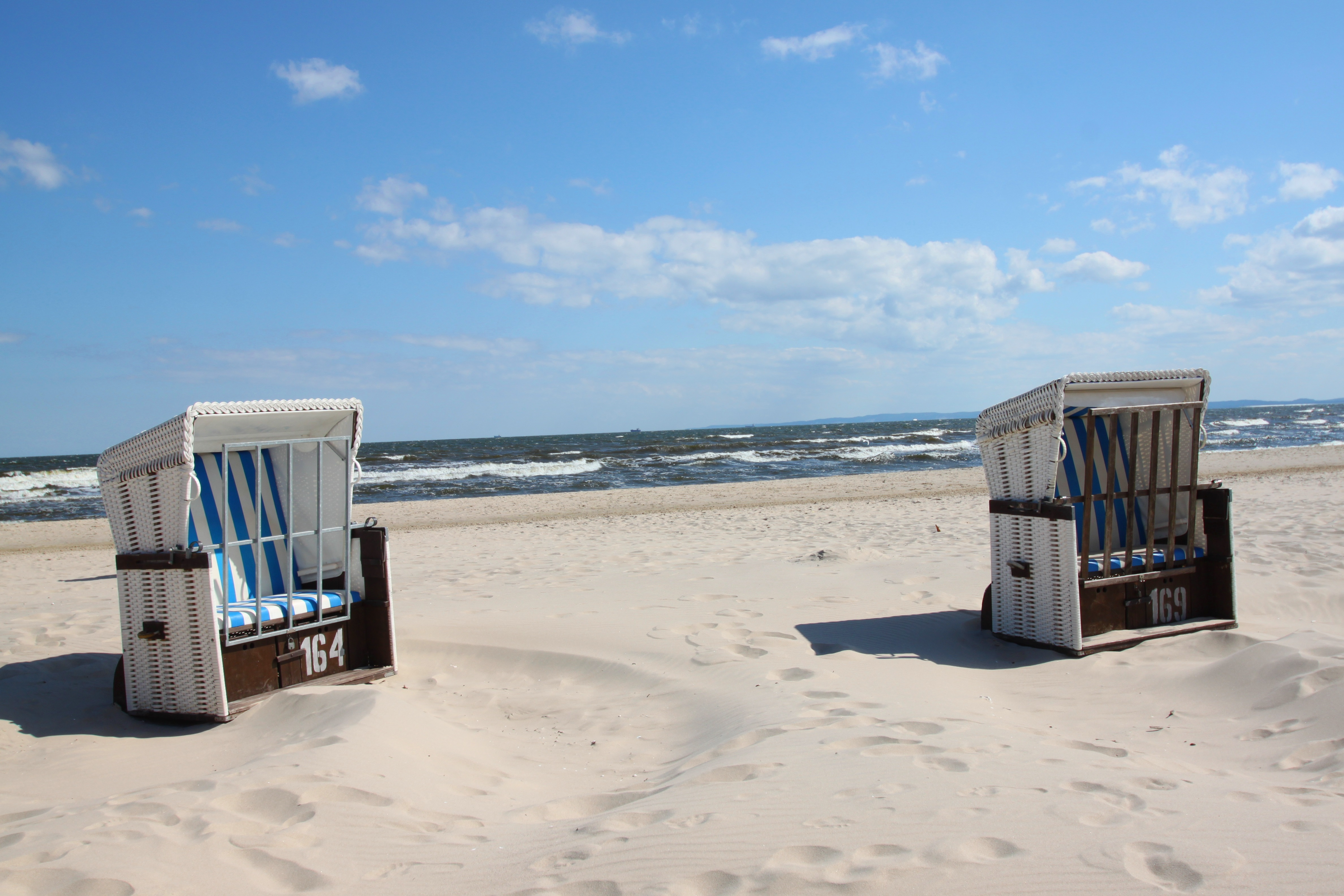 Strandkorbs at Ahlbeck Beach